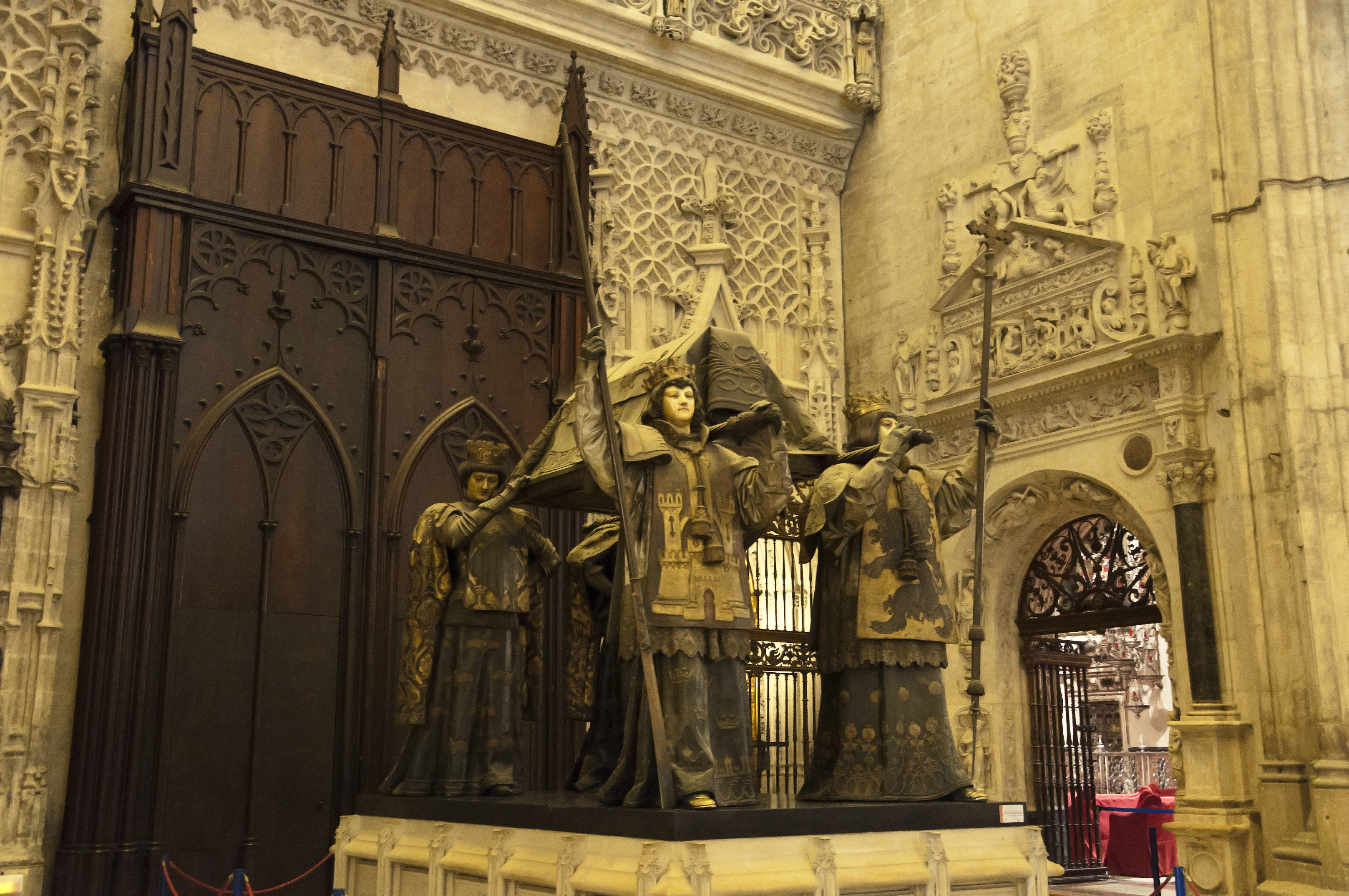 Tomb of Christopher Columbus at the cathedral of Seville, Spain